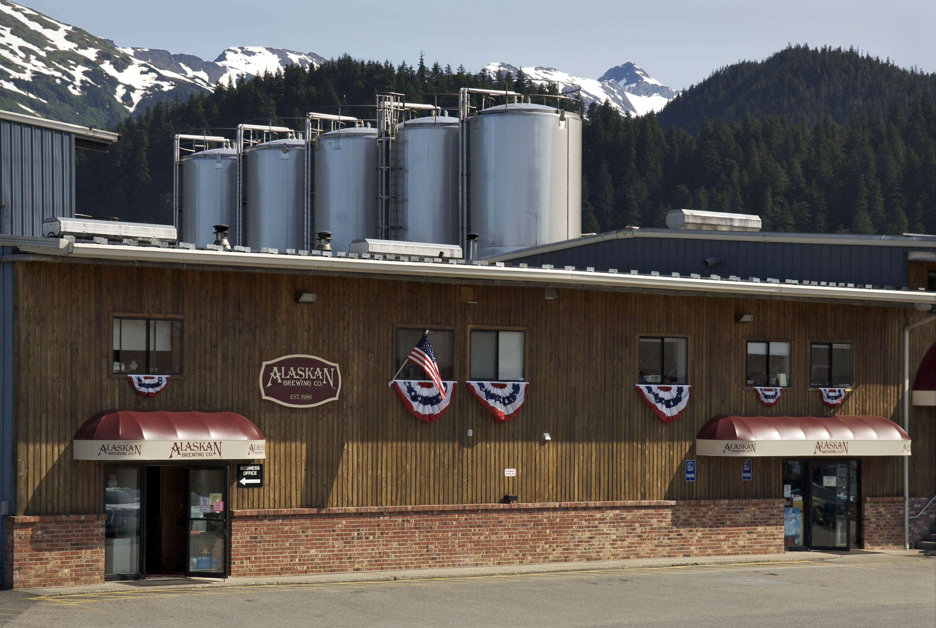 The Alaskan Brewing Company in Juneau, AK is using a first-of-its-kind steam boiler fueled by spent grain to reduce its use of fuel oil by over 65 percent. The boiler was funded in part through the U.S. Department of Agriculture’s (USDA) Rural Development (RD) Rural Energy for America (REAP) Program. Photo by Alaska Brewing Company photo.